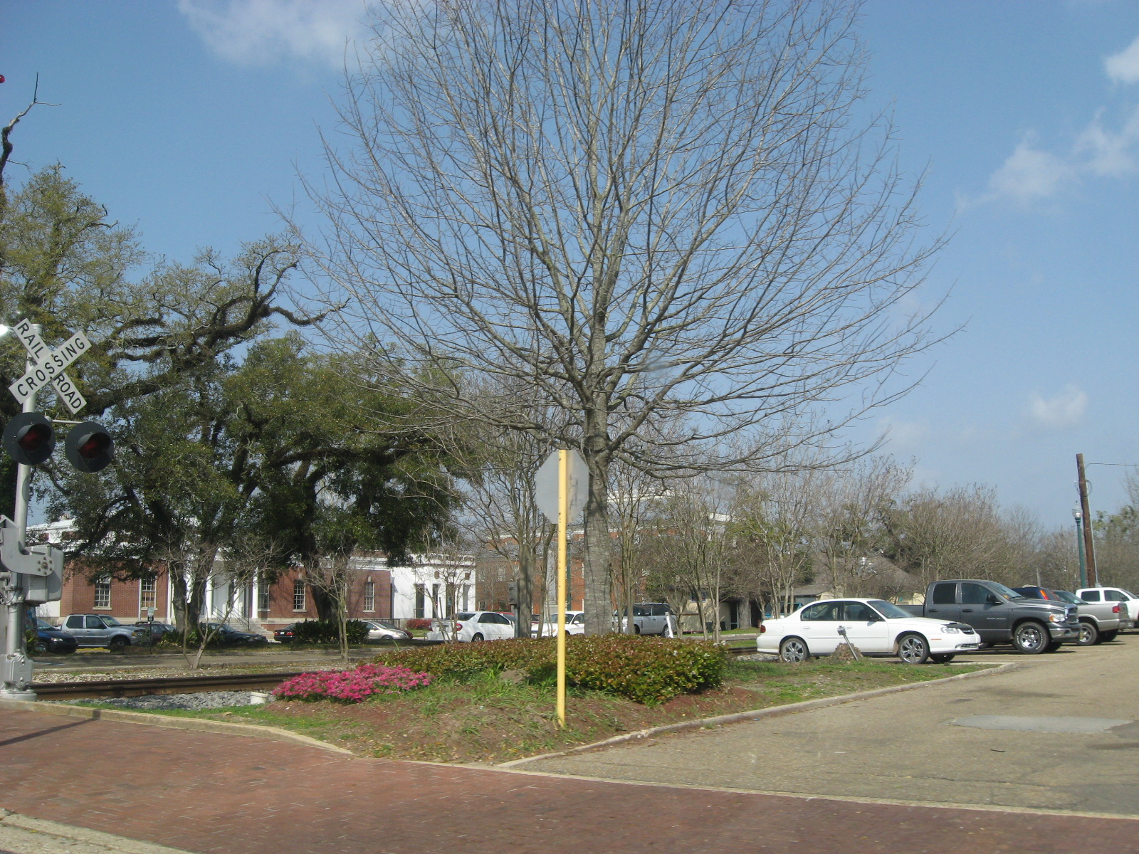 Parking lot near railroad crossing in downtown Hammond, LA